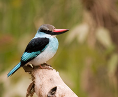 Blue-breasted Kingfisher (Halcyon malimbica) on branch.